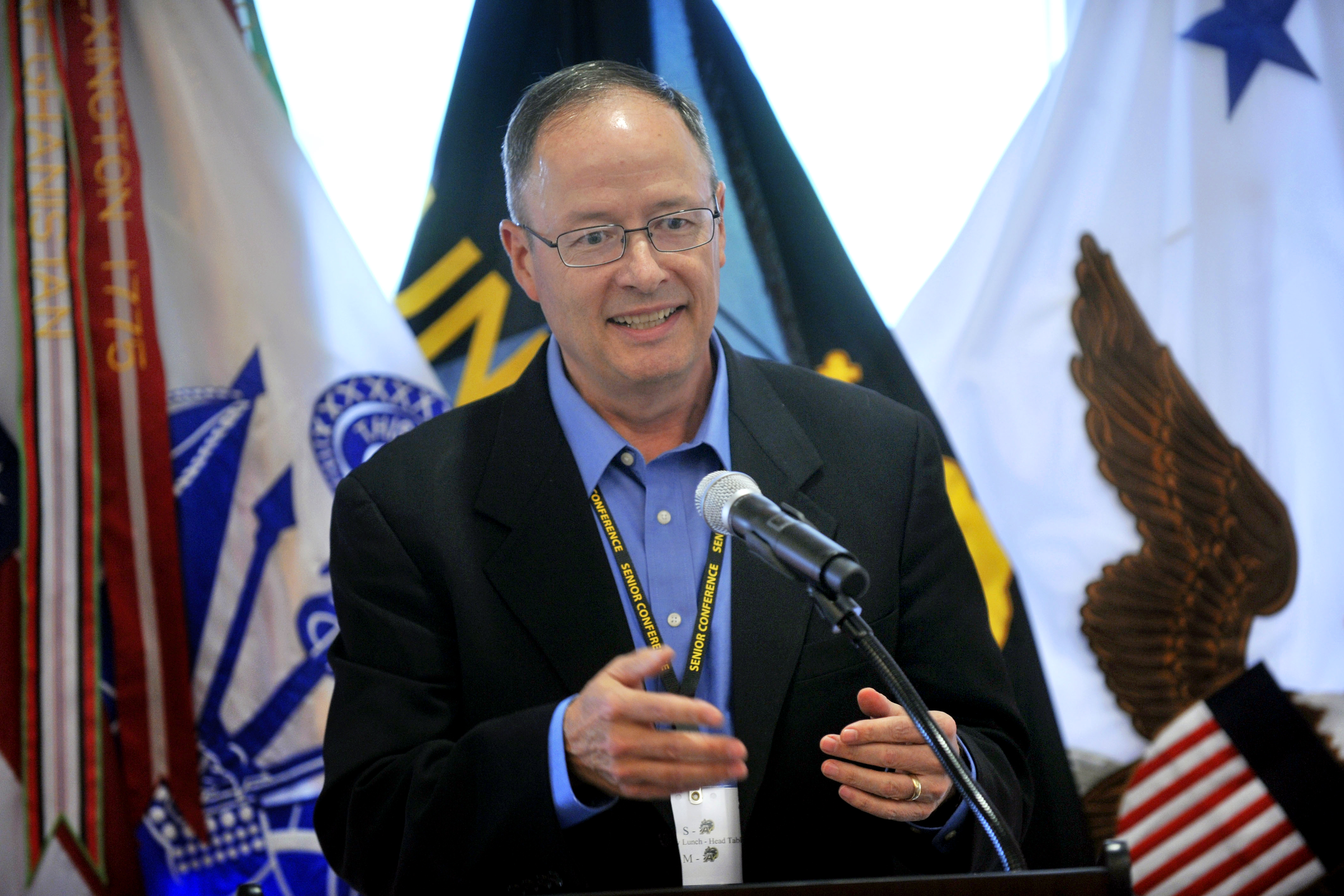 Army Gen. Keith B. Alexander, commander of the U.S. Cyber Command, director of the National Security Agency, and chief of the Central Security Service, introduces Deputy Defense Secretary Ashton B. Carter to attendees of the Senior Conference XLIX at the U.S. Military Academy at West Point, N.Y., June 4, 2012.